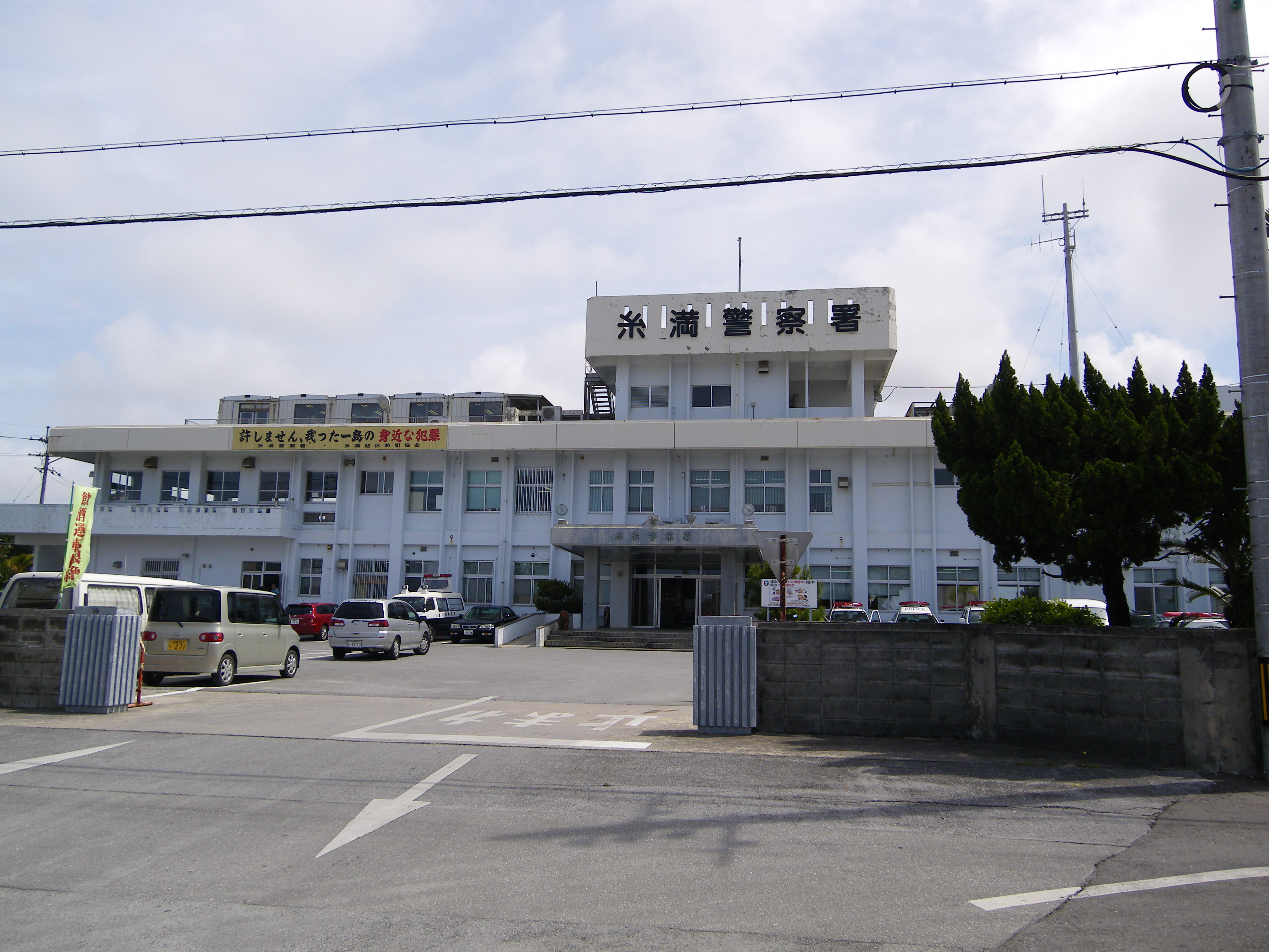 Former Itoman Police Station